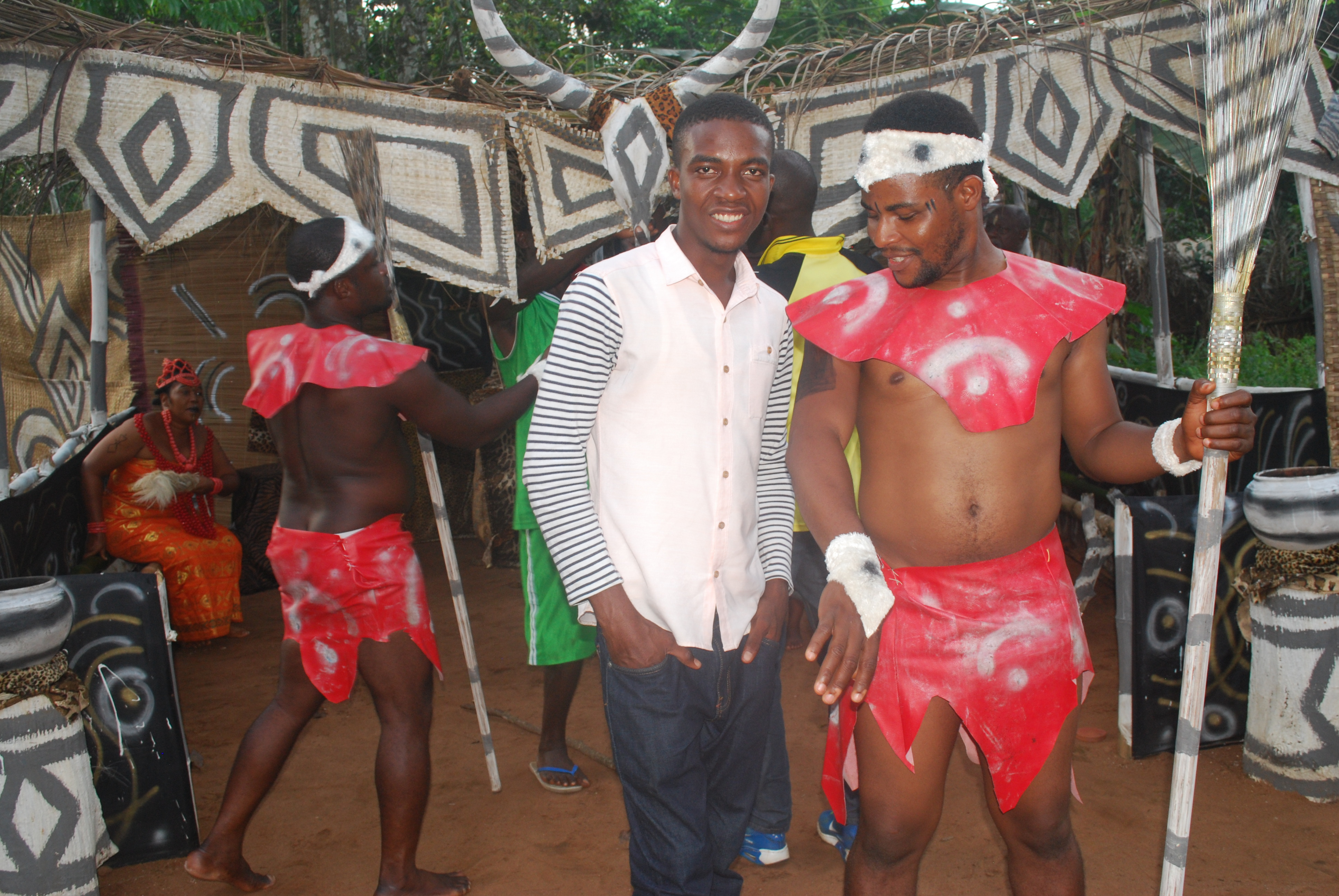 Behind the scene picture is an african movie called the GOLDEN SWORD edited by Samuel David Chinedu This is an image of "African people at work" from Nigeria